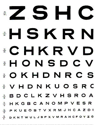 Reproduction of an opthalmic eye chart.